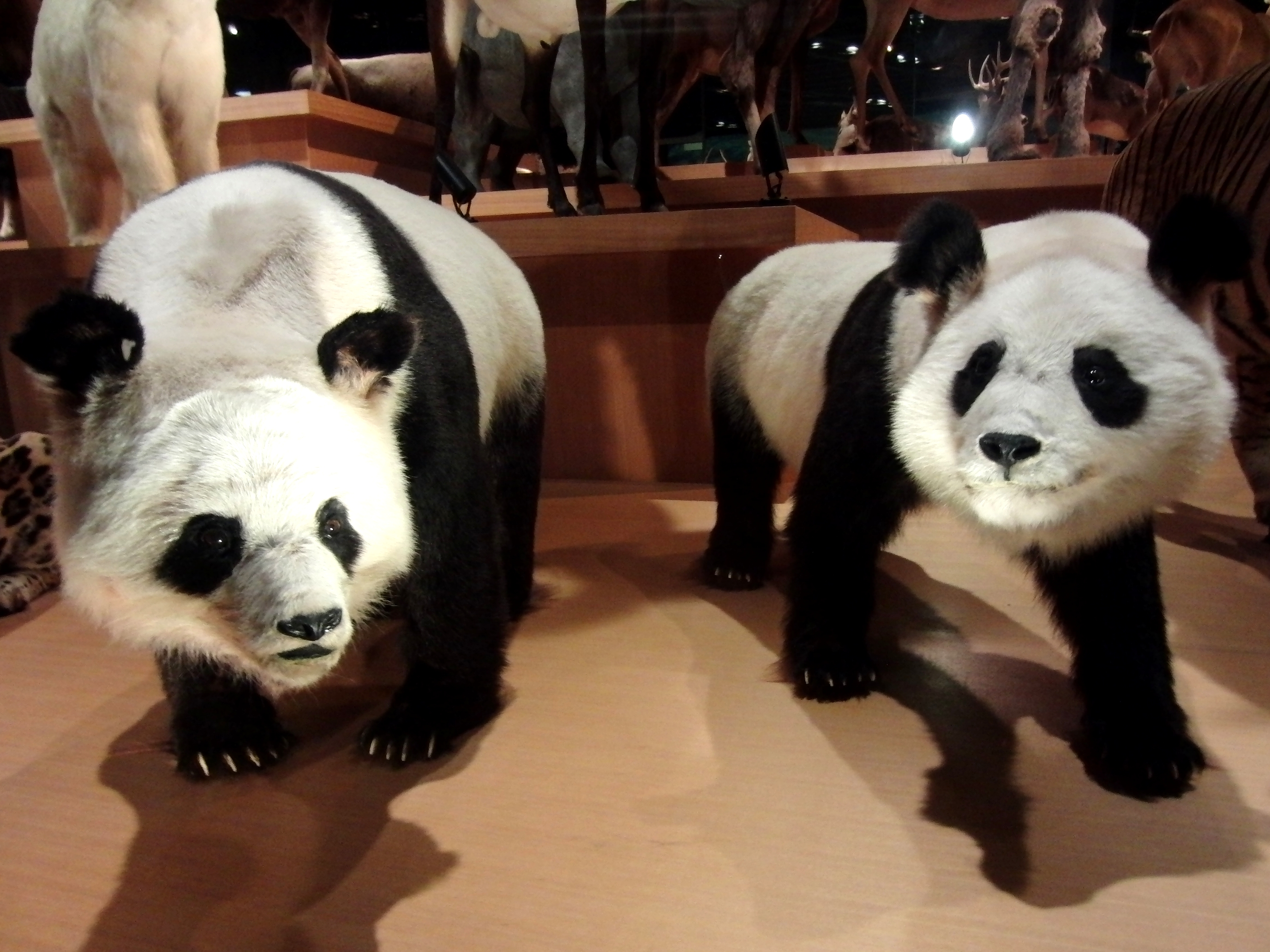 Stuffed Specimens of Giant Panda named "Fei Fei"(left) and "Tong Tong"(right), bred once in the Ueno Zoo, Tokyo, Japan. Exhibit in the National Museum of Nature and Science, Tokyo, Japan.